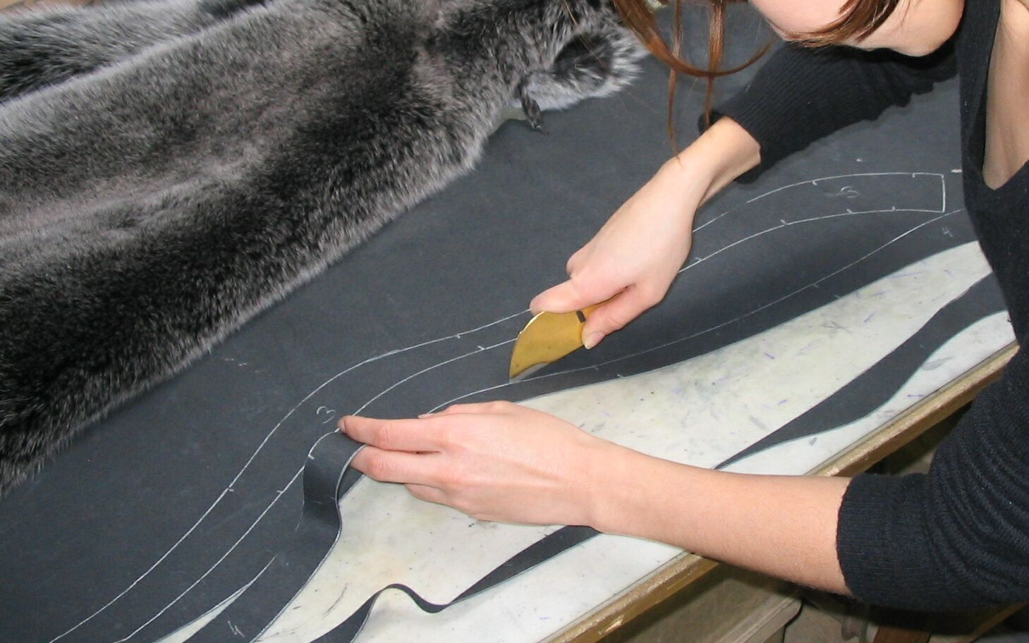 Furrier is cutting leather for a bluefox coat with silk lamb and leather